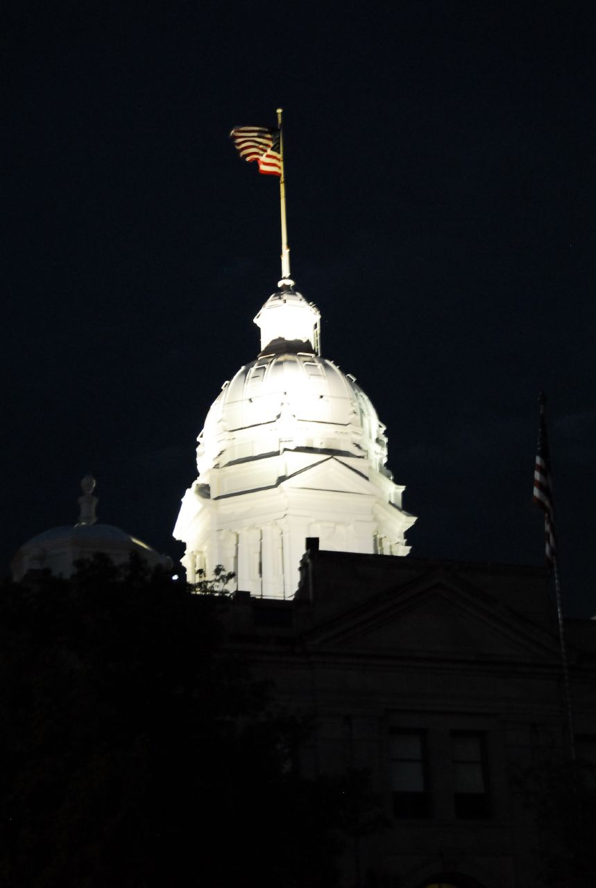 Kearney County Courthouse in Minden, Nebraska, USA